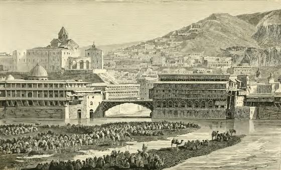 View of Tiflis, showing the Ridge of Sololaki, Metekhi Bridge and Old Fortress. From: Telfer, John Buchan (1876), The Crimea and Transcaucasia; being the narrative of a journey in the Kouban, in Gouria, Georgia, Armenia, Ossety, Imeritia, Swannety, and Mingrelia, and in the Tauric range. London: H.S. King & Co.